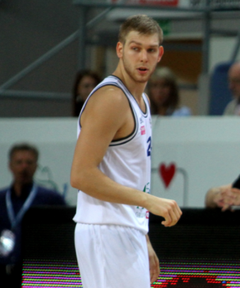 Michał Sokołowski, Polish professional basketball player.